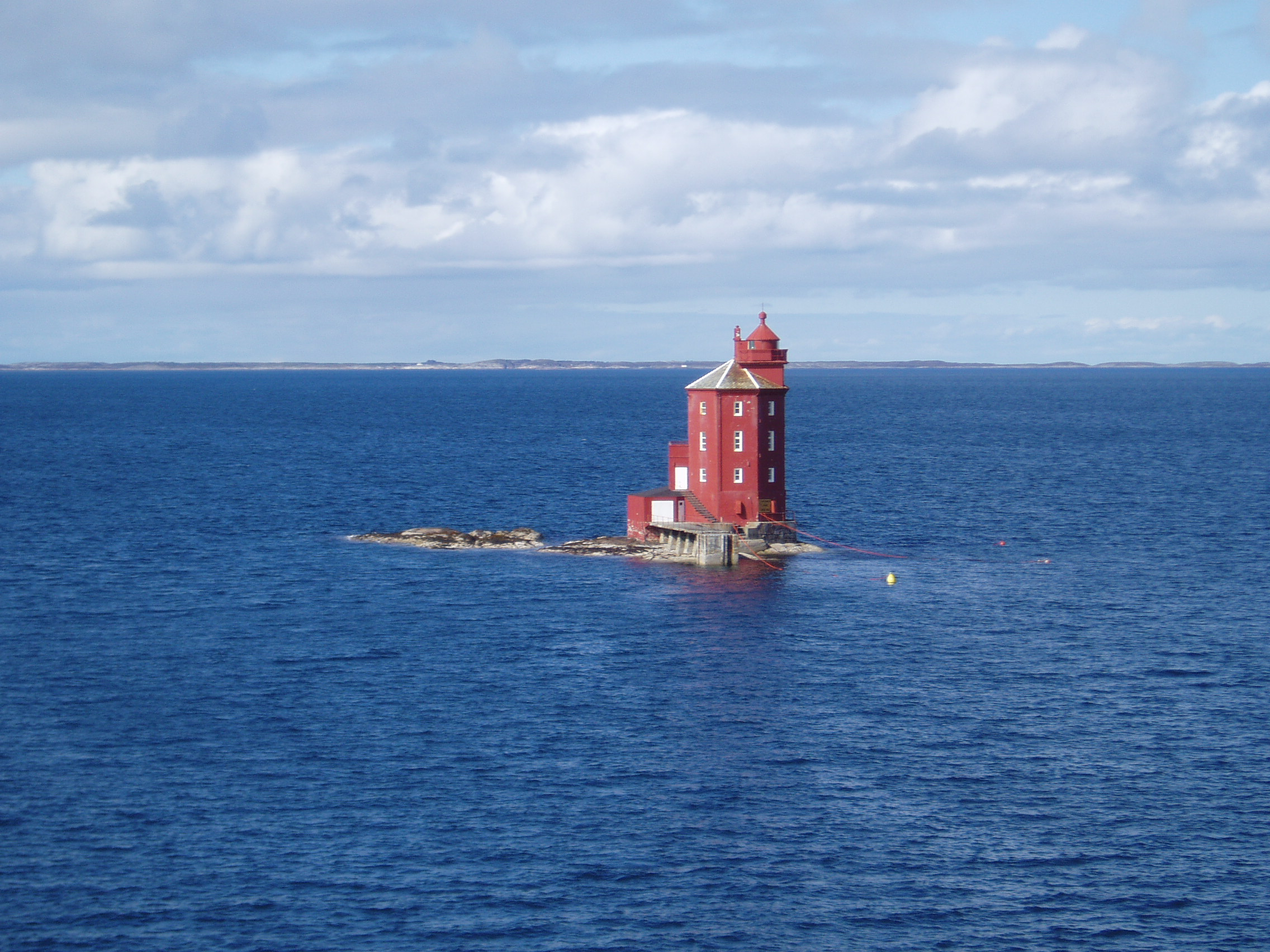 I photographed this beautiful lighthouse from the Hurtigruta. The photograph isn't quite detailed enough to show you that the lighthouse is in fact made of brightly-painted timber, in traditional scandinavian style.